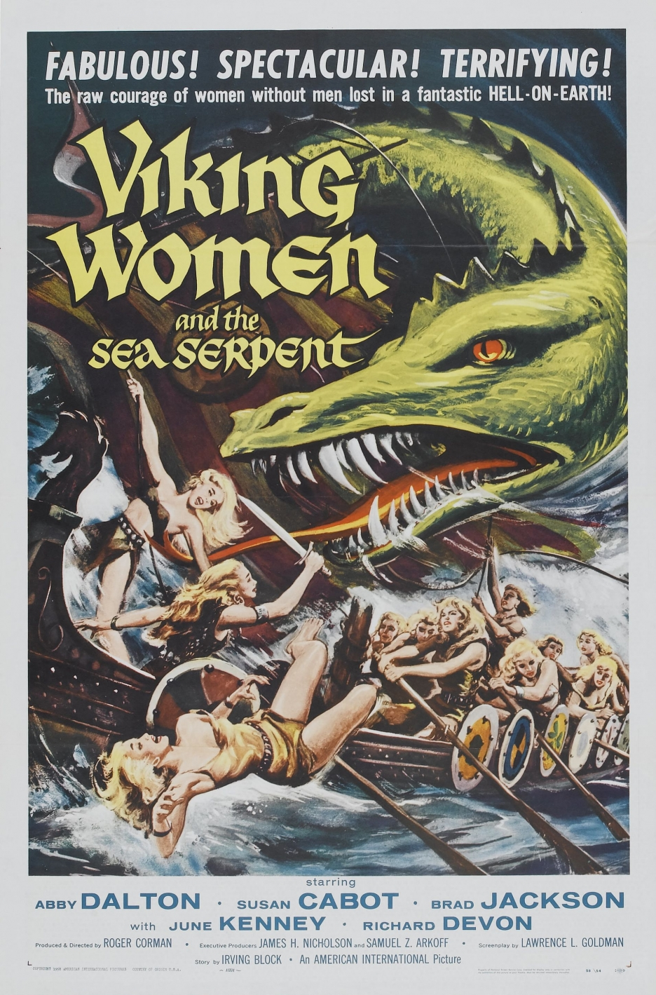 Poster for the film The Saga of the Viking Women and Their Voyage to the Waters of the Great Sea Serpent also known as Viking Women and the Sea Serpent (1957).